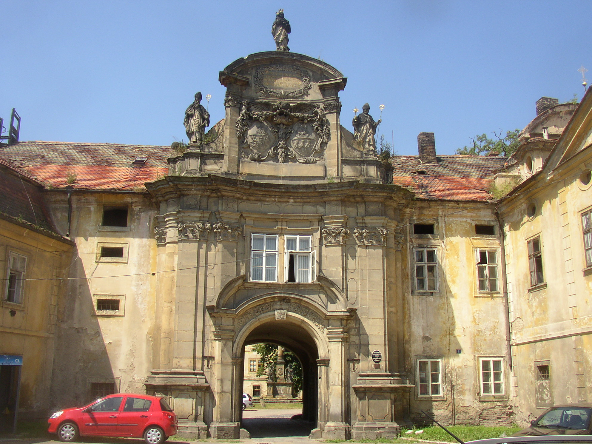 Main gate of female Premonstratensian convent in Doksany, Litoměřice District, Czech Republic. Built in 1697, decorated with sculptures of Virgin Mary, St Augustine and Sta Norbert. Marian plague column in the first courtyard is partially visible through the gateway.